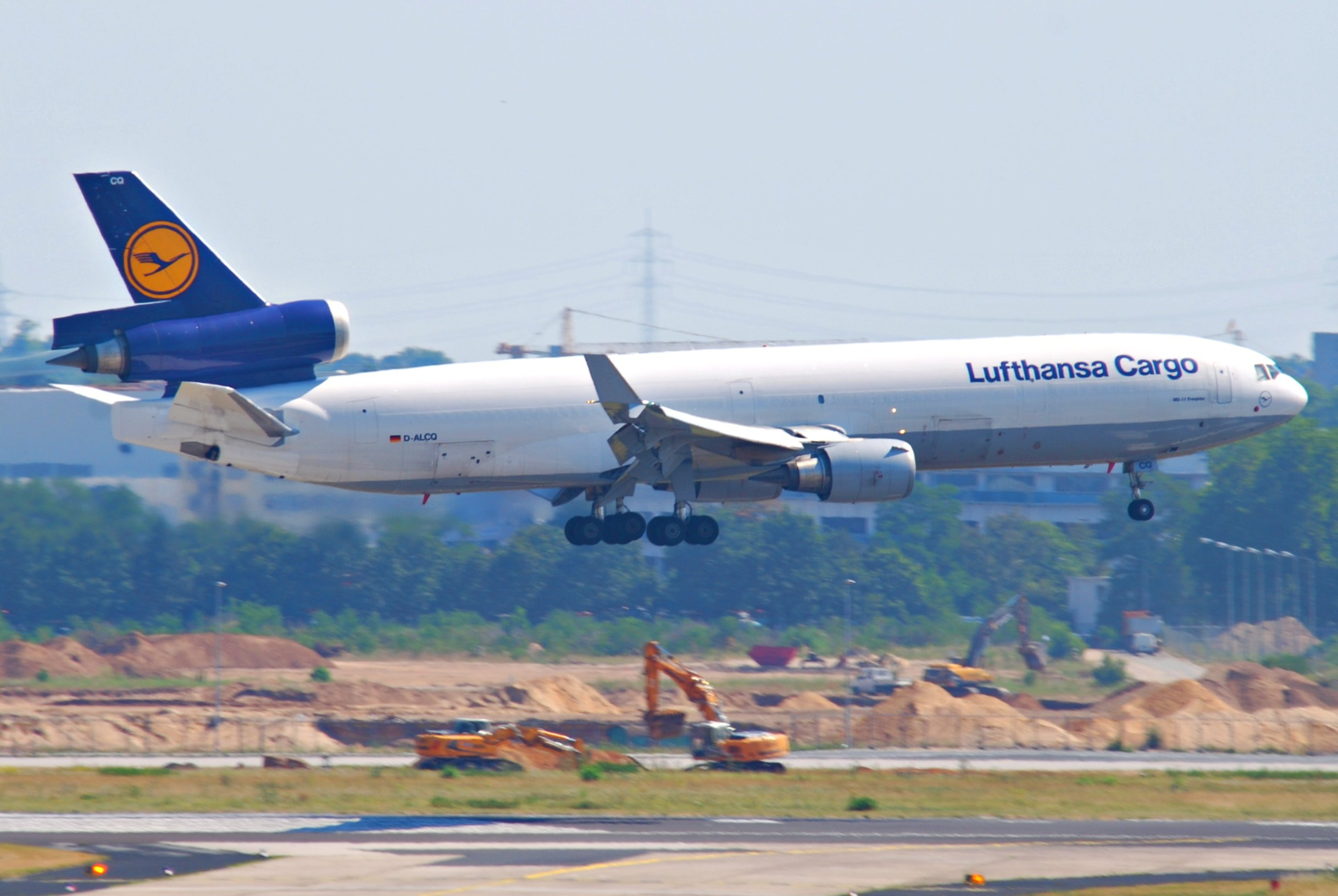 From: A Lufthansa Cargo MD-11 freighter, registration D-ALCQ performing flight GEC-8460 from Frankfurt/Main (Germany) to Riyadh (Saudi Arabia) with 2 crew and 80 tons of goods, broke into two parts and burst into flames while landing at Riyadh's runway 33L at 11:38L (08:38Z). Captain and first officer received injuries and were taken to local hospitals. Fire fighters were able to extinguish the fire, that broke out in the center area of the aircraft, front and rear portion were visibly not consumed by the fire. The airport reported, that fire fighters were able to contain the fire. Lufthansa Cargo said, that the airplane broke in two parts and caught fire. The two crew received injuries, the extent of which is not yet known. Aviation sources in Riyadh reported, that the crew declared emergency reporting a cargo fire indication while on approach to Riyadh. Observers on the ground said, that the airplane was already trailing smoke while on final approach.